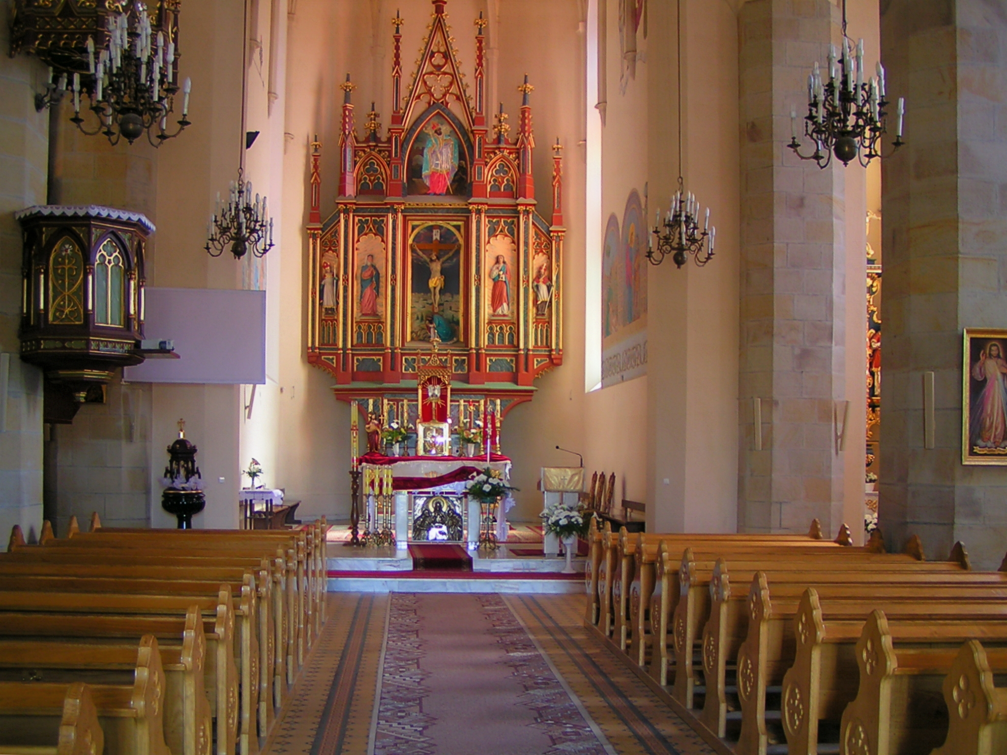 Parish Church of St. Martin the Bishop in Łużna - interior